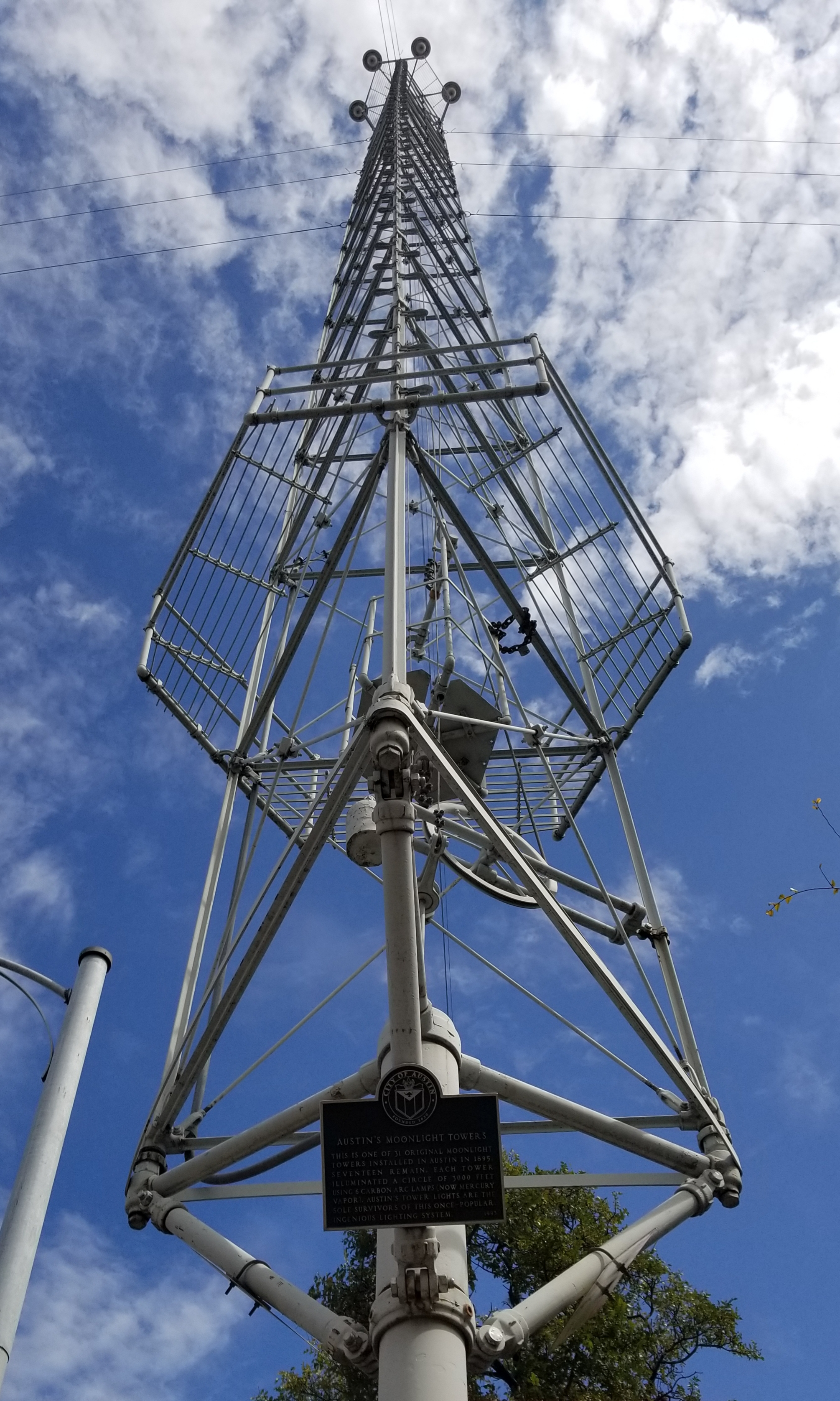 One of 15 remaining Moon Light Towers in Austin, TX. Thirty- one were installed in 1895. The are the sole survivors in the world. NRSID: 76002071 RTHL: 6424 TSAL: 627